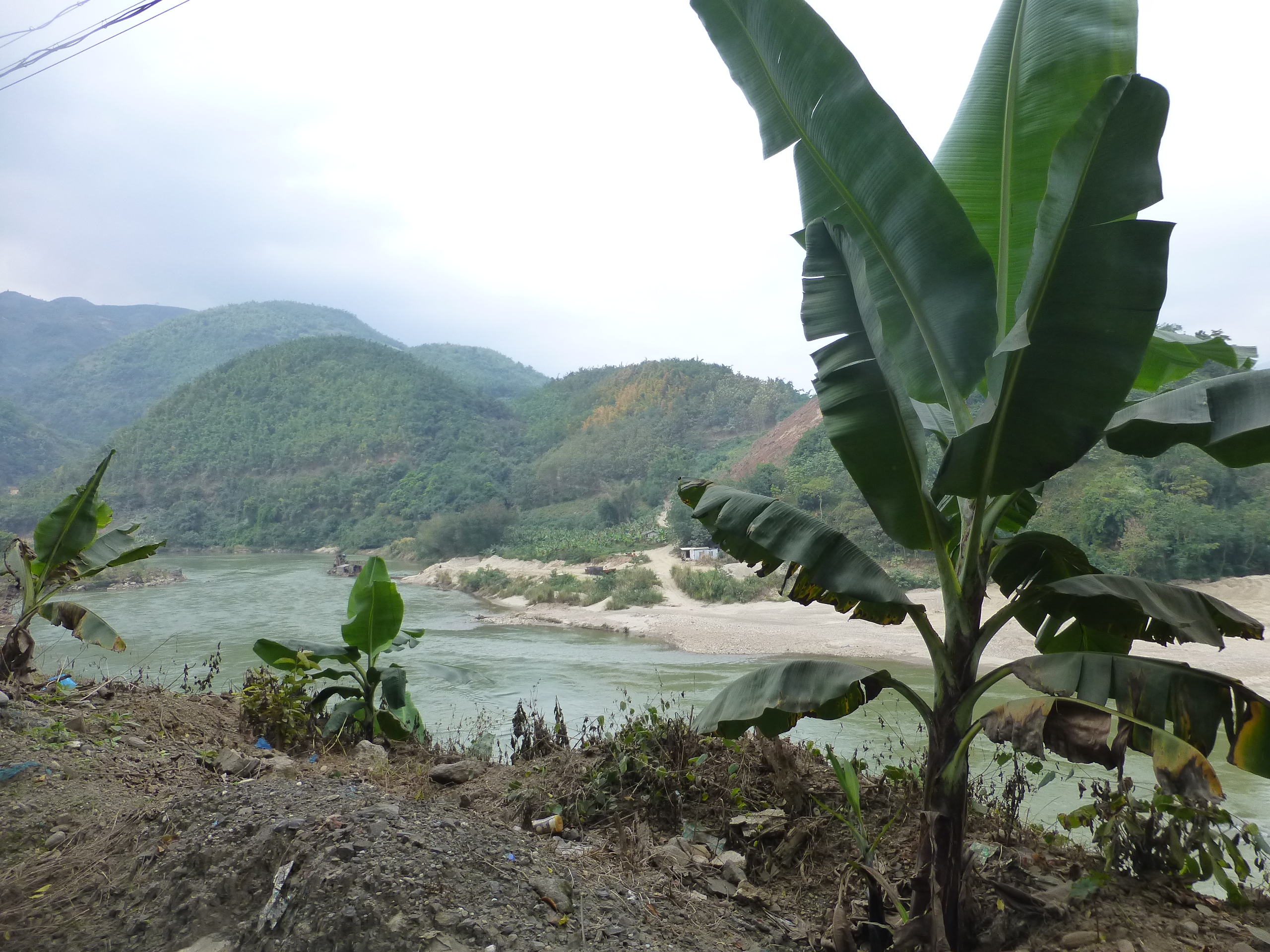 In the valley of the Red River in Lianhuatan Township (Hekou County, Yunnan), between Manhao highway exit and Lianhuatan township center.